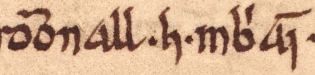 An excerpt from folio 48r of Bodleian Library MS. Rawl. B. 489 (the Annals of Ulster). The man referred to is Domnall mac Muirchertaig, King of Dublin (died 1135).